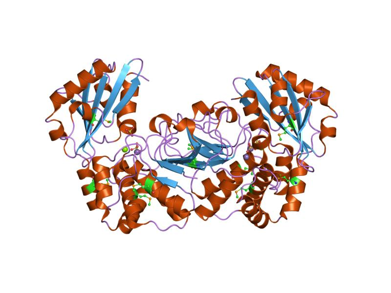 Cartoon representation of the molecular structure of protein registered with 1i74 code.